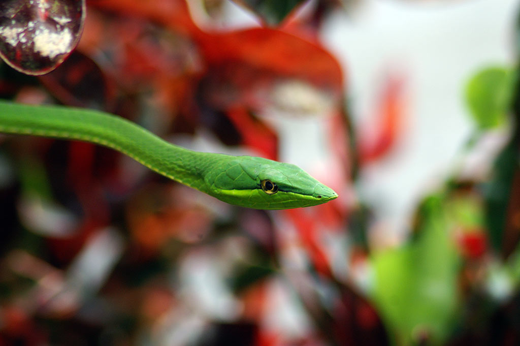 Green vinesnake